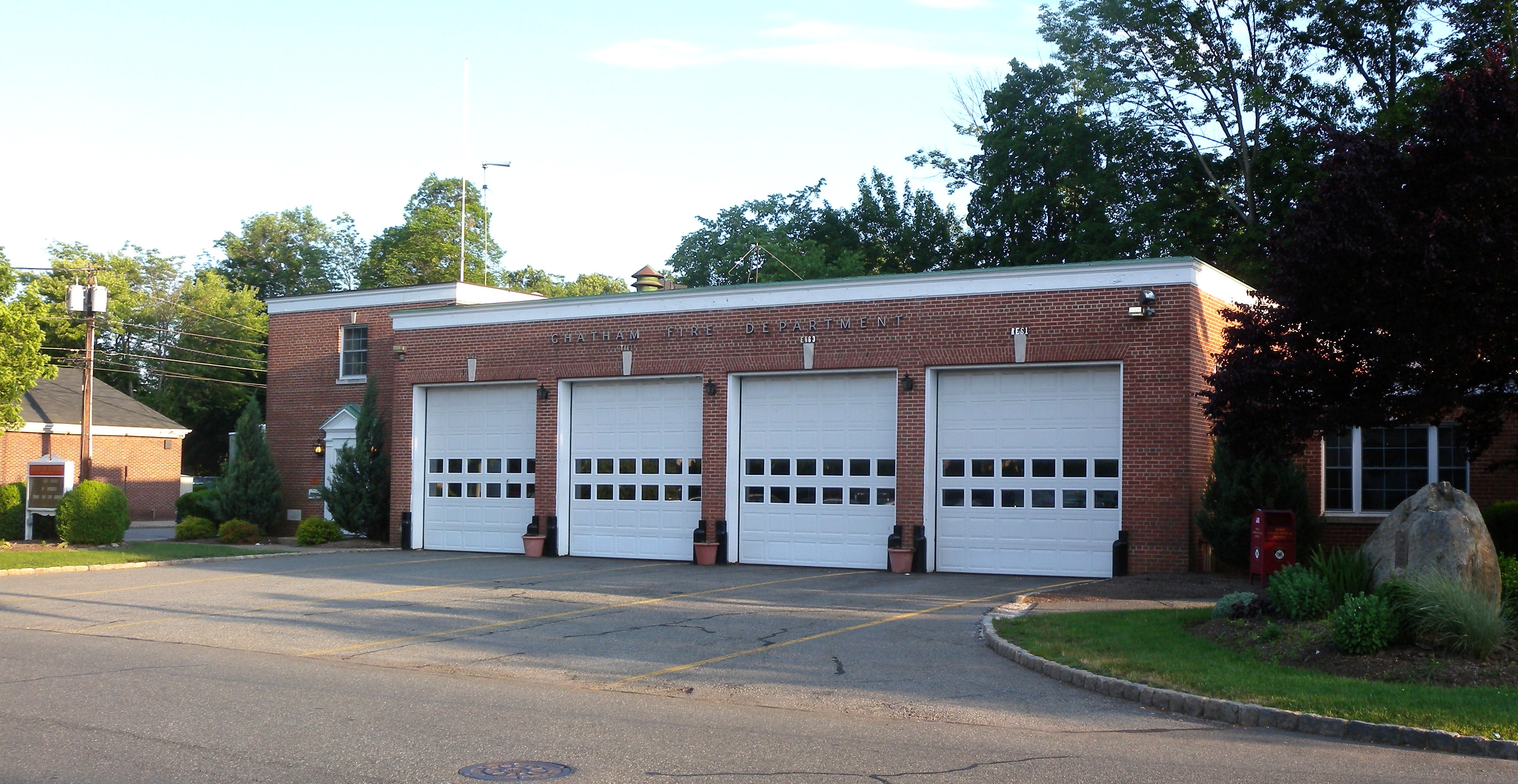 Looking southeast from Firehouse Plaza at Chatham, New Jersey Fire Department on a sunny late afternoon.